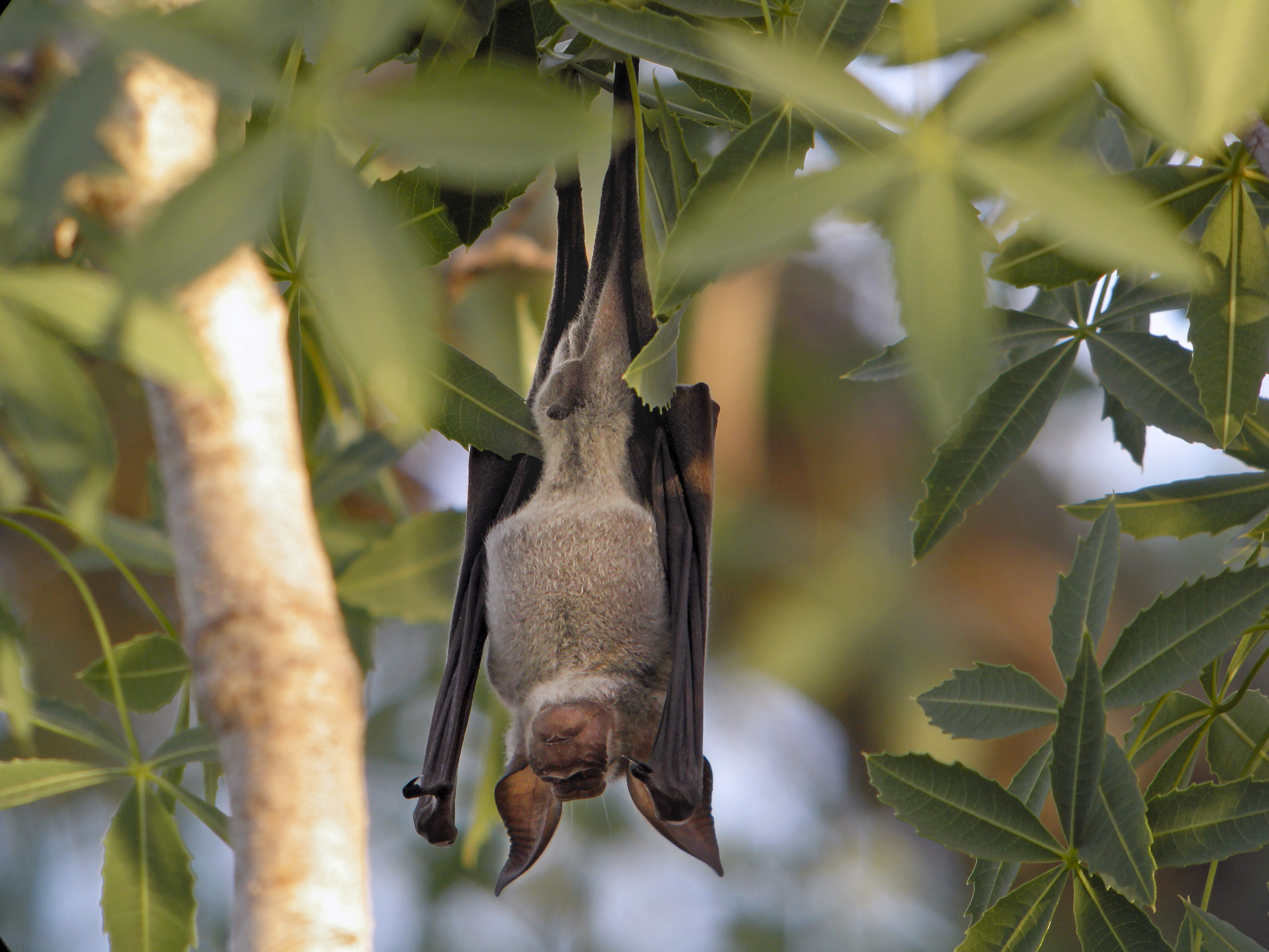 Commerson’s Leaf-nosed Bat (Hipposideros commersoni), Tsimamampetsotsa, Madagascar Swarowski 80 HD 30 X, Coolpix P5100 (Adapter DCB)